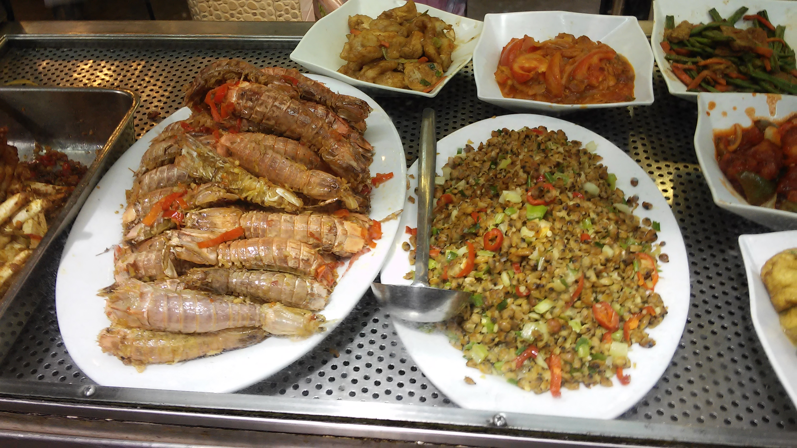 賴尿蝦, HK Fortress Hill 280 Electric Road Wah Hoi Mansion Oct-2014 LG2 restaurant seafood